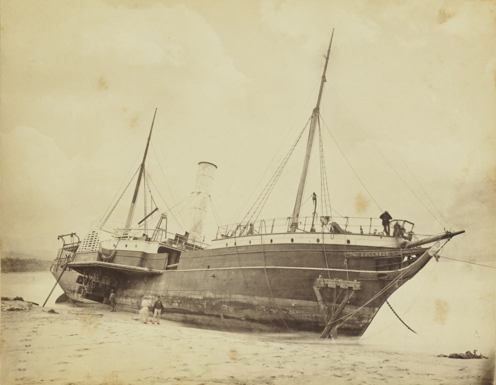 photo of the beached SS Collaroy, circa 1881